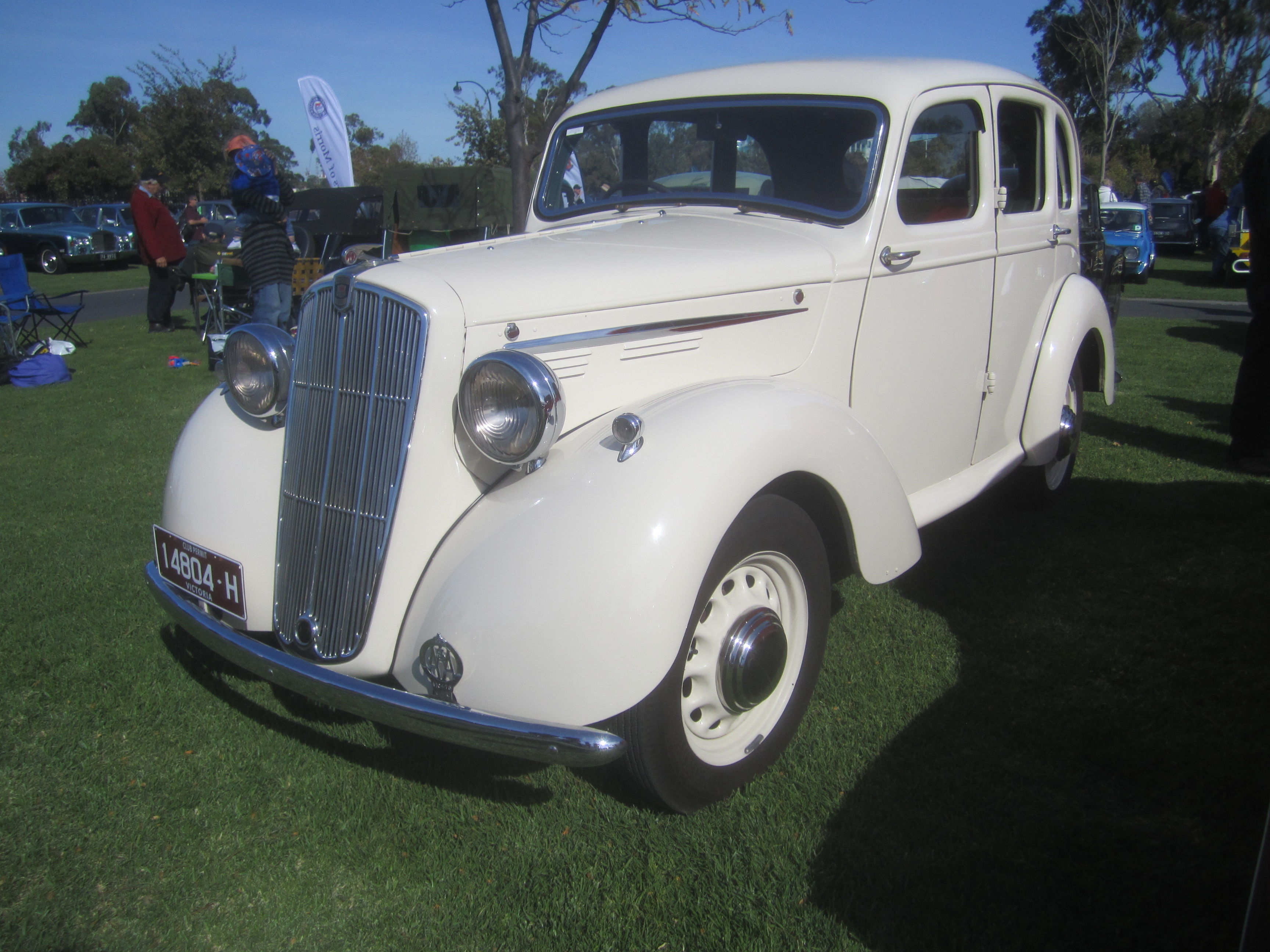 Morris 10 Saloon Series M 1940